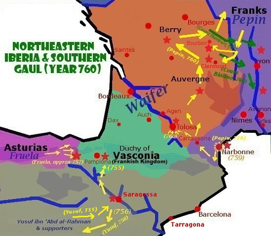 New corrected version upload of previous map